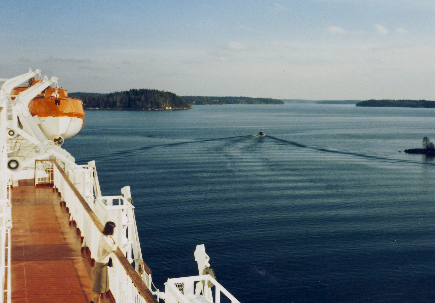 MS Birka Princess on the Sea of Åland in 1986.